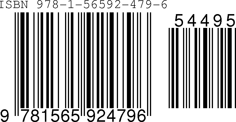 An ISBN-13 with an EAN-5 addon representing $44.95 USD. Created using Barcode Writer in Pure PostScript.